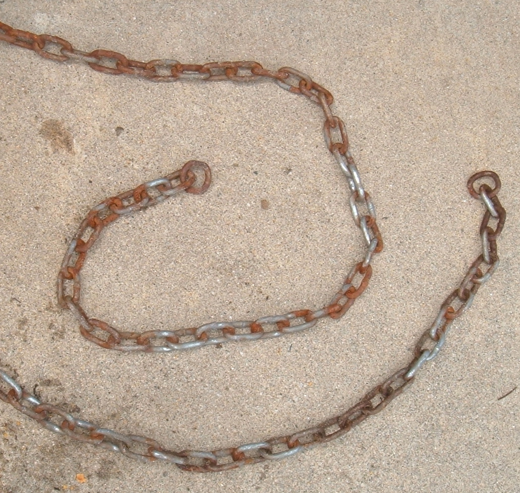 Two rusty chains. One of a series of common objects I photographed in the summer of 2005 to illustrate Basic English picture wordlist. --agr 21:08, 3 August 2005 (UTC)